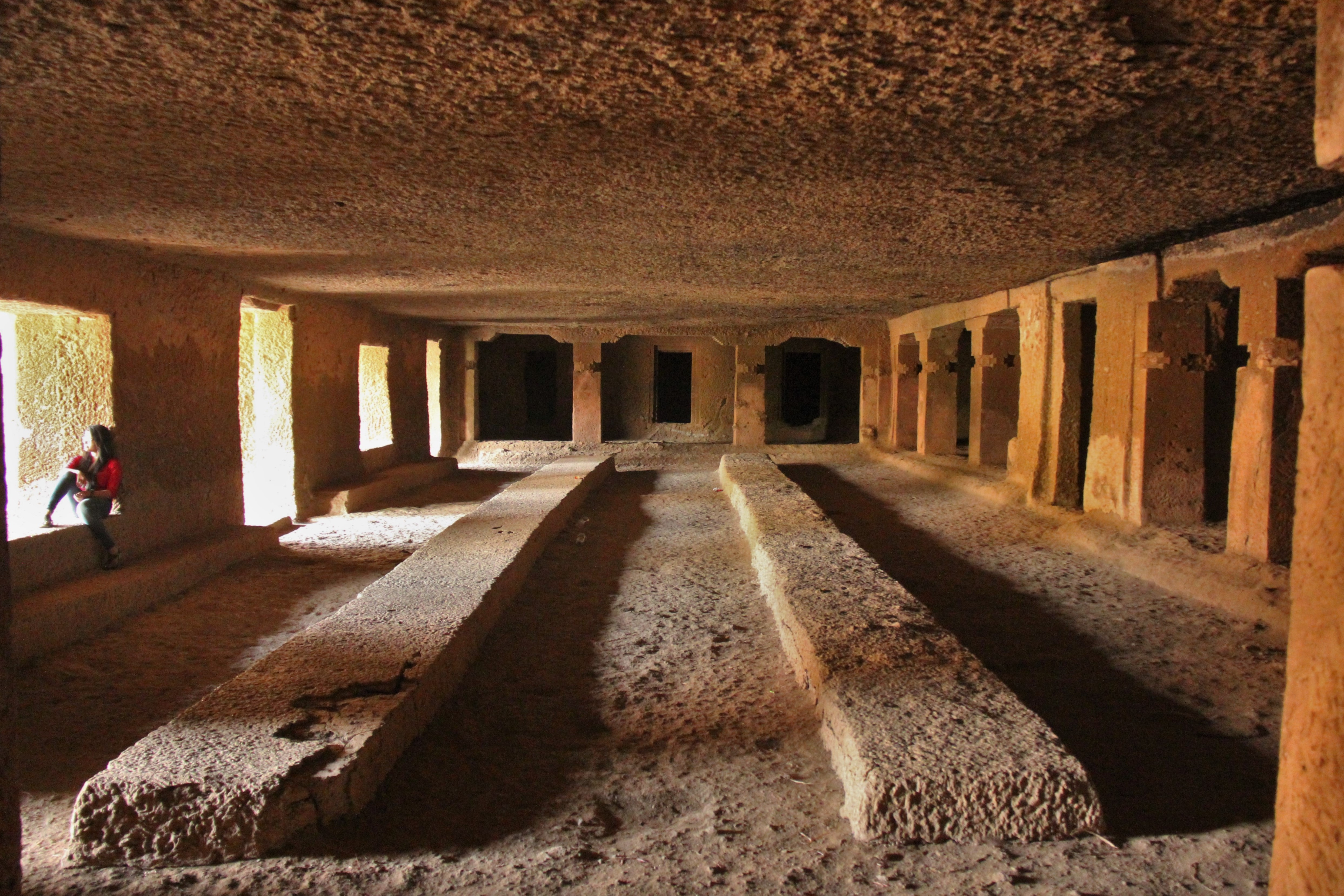 Hall in one of the caves in Kanheri caves. Hall possibly used as common dining area